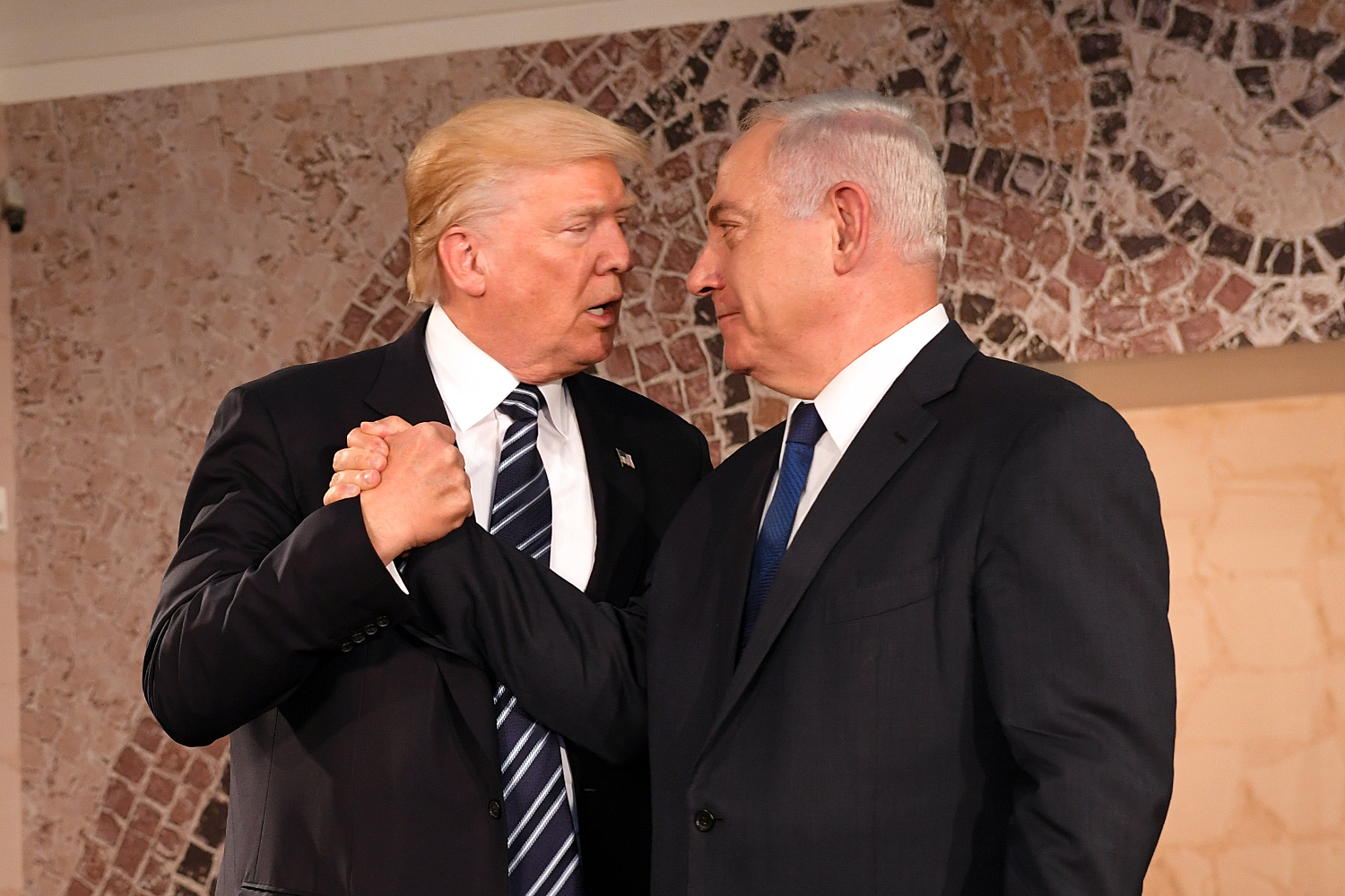 President Trump at the Israel Museum. Jerusalem May 23, 2017 President Trump at the Israel Museum. Jerusalem May 23, 2017